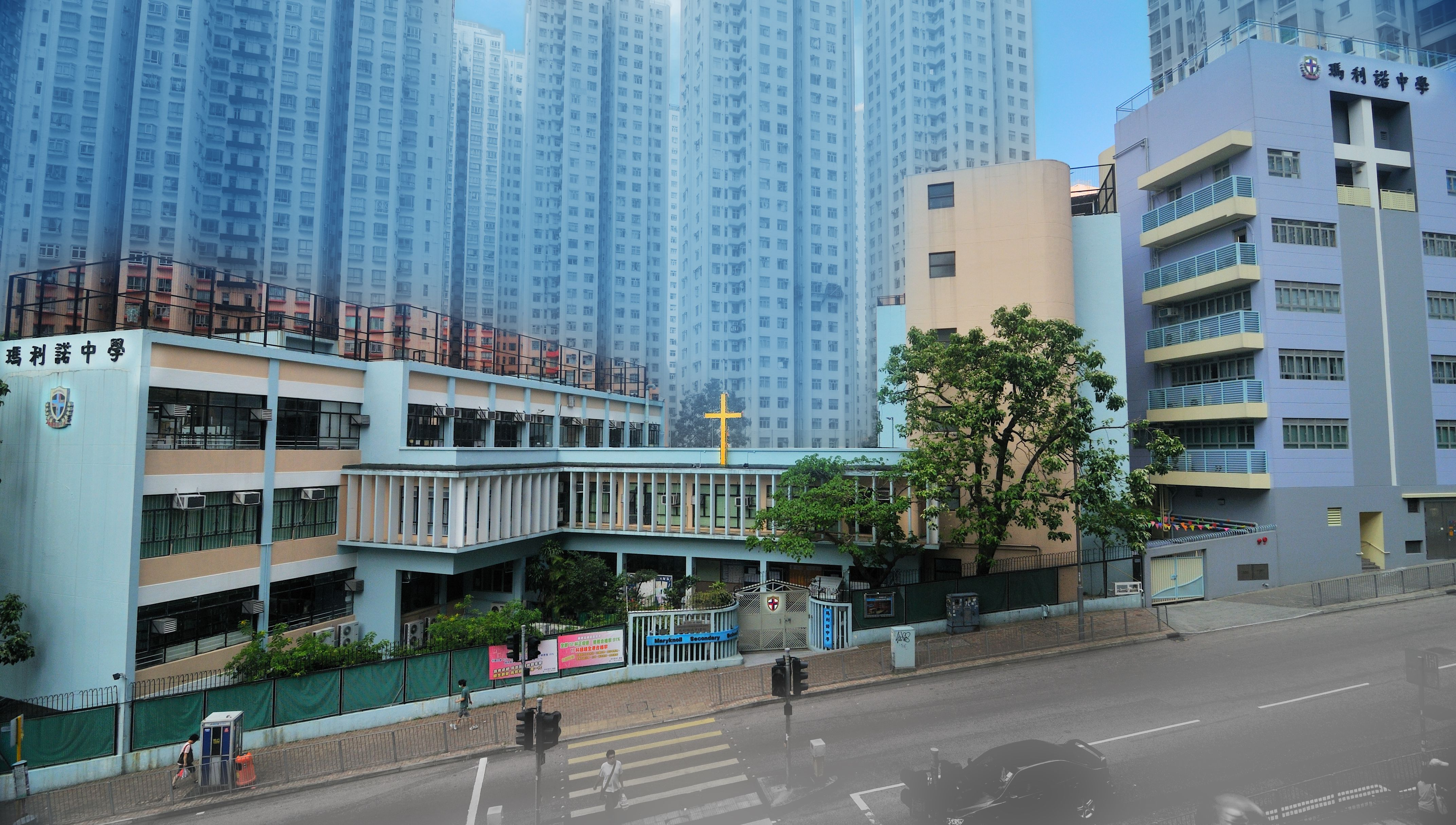 Photo of Maryknoll Secondary School